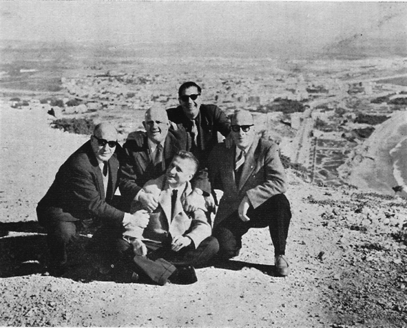 The organizing comittee of the 1954 Agadir Grand Prix automobile race, possibly near the Kasbah fortress